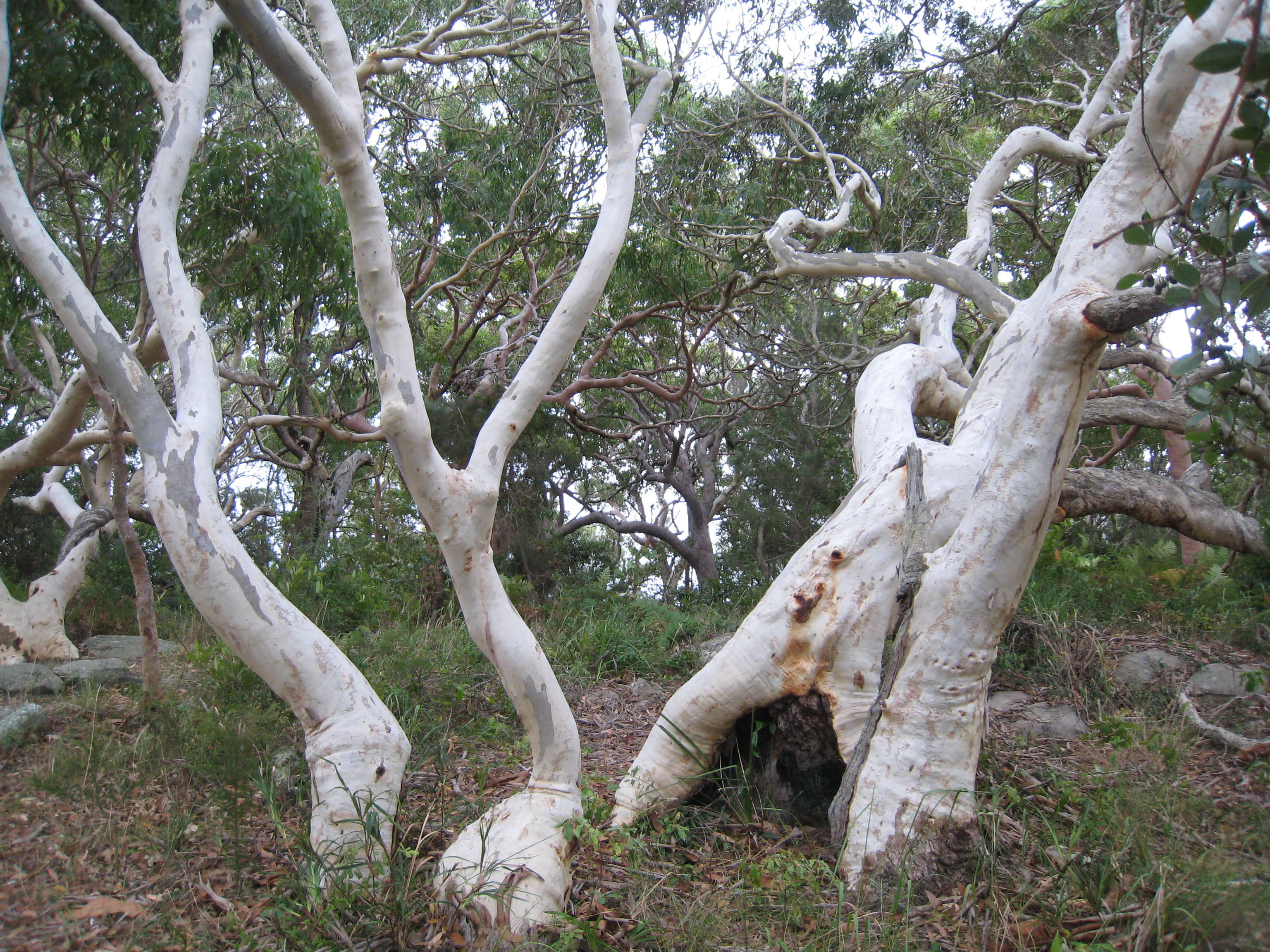 Eucalyptus haemastoma, McKay Reserve, Palm Beach, NSW. A single tree, its trunk split by fire.